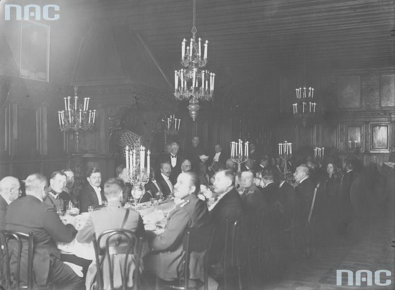 Józef Piłsudski in Nieswiz (Nieśwież, Western Belarus) visiting the Radziwills. Photoed 1926 AD, October 25.